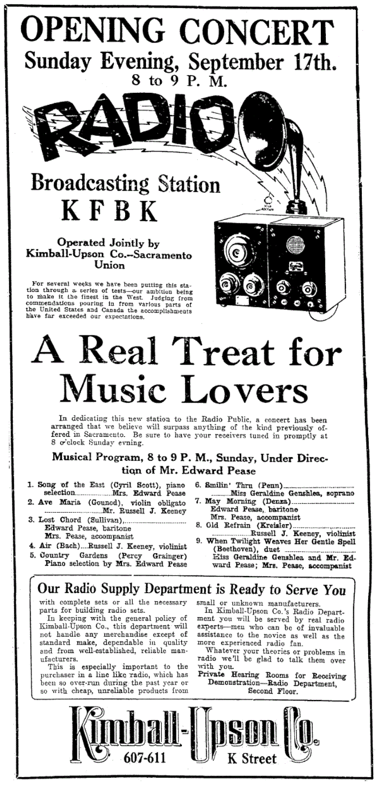 Radio station KFBK in Sacramento, California, licensed to the Kimball-Upson Company. made its formal debut broadcast on September 17, 1922.